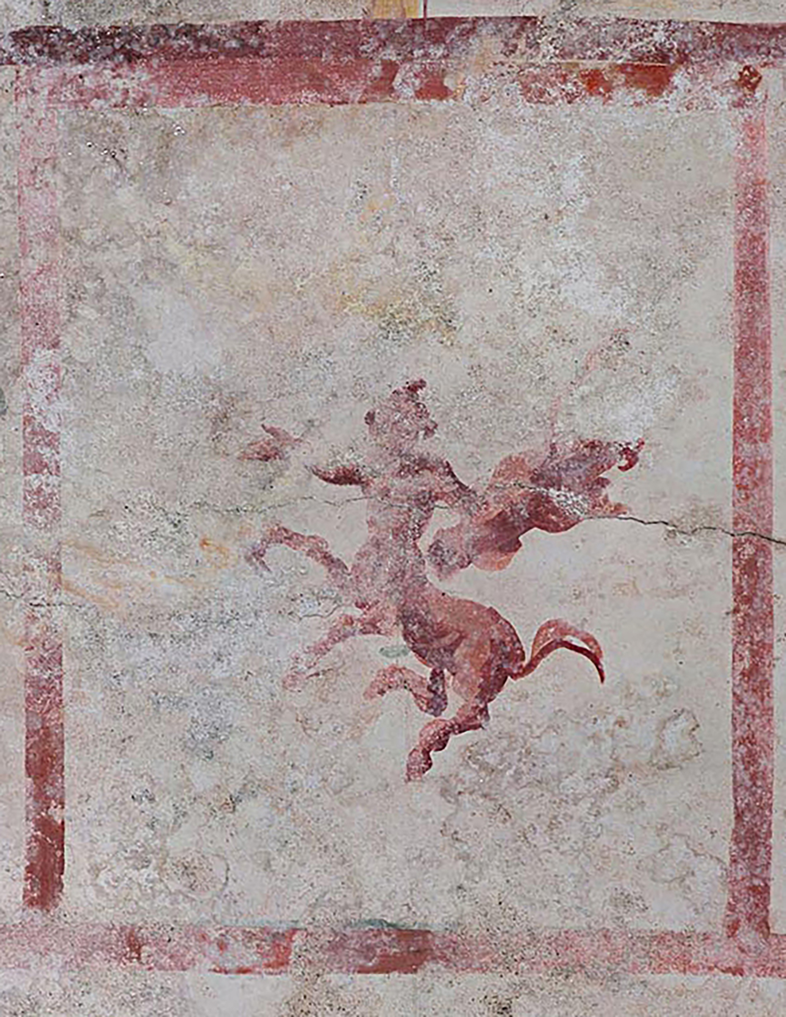 Fresco of a centaur. Sala della Sfinge, Domus aurea, Rome